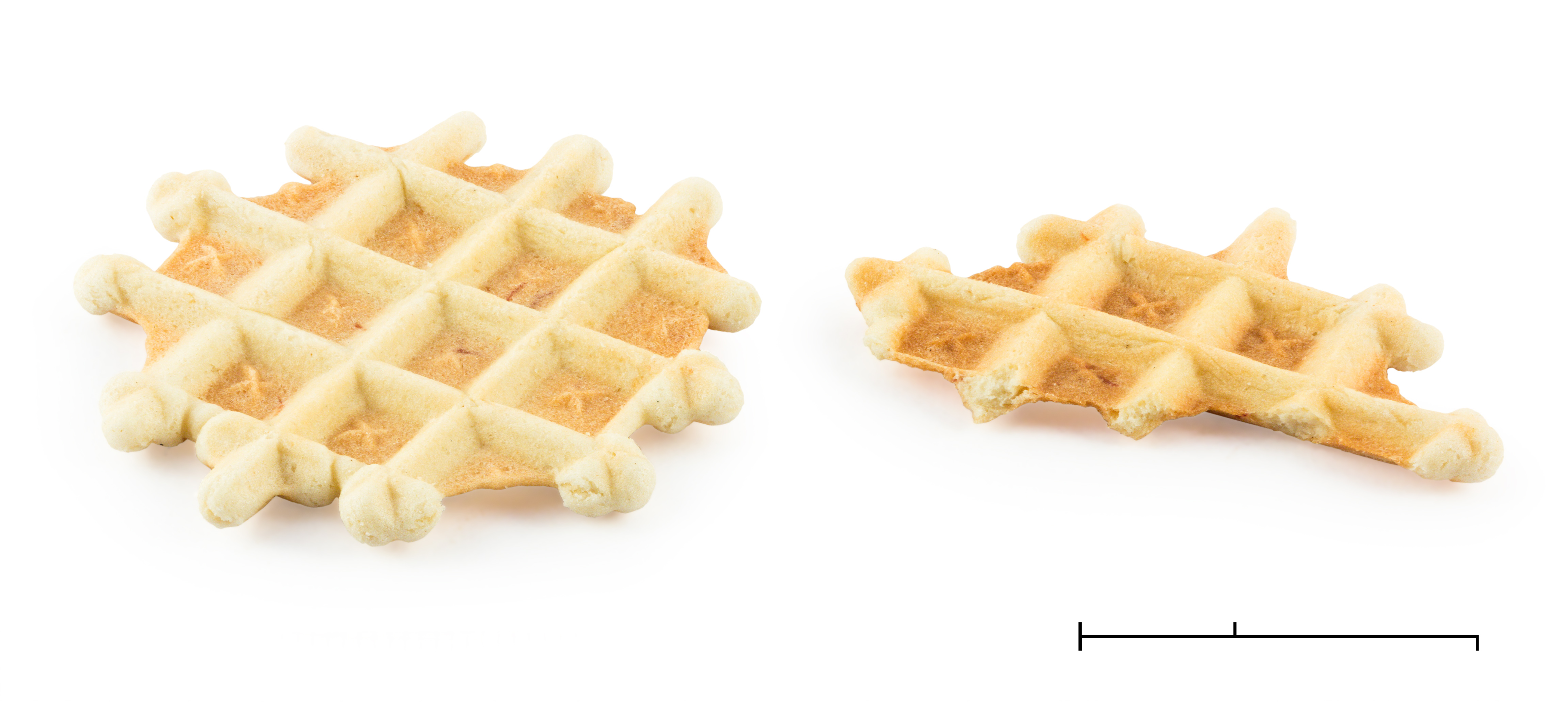 Panda-brand kue gapit, a kind of cracker from Cirebon. It is made by pressing the dough in between two metal molds. These crackers are firm and crispy. The scale shows 1 cm (top) and 1 inch (bottom)